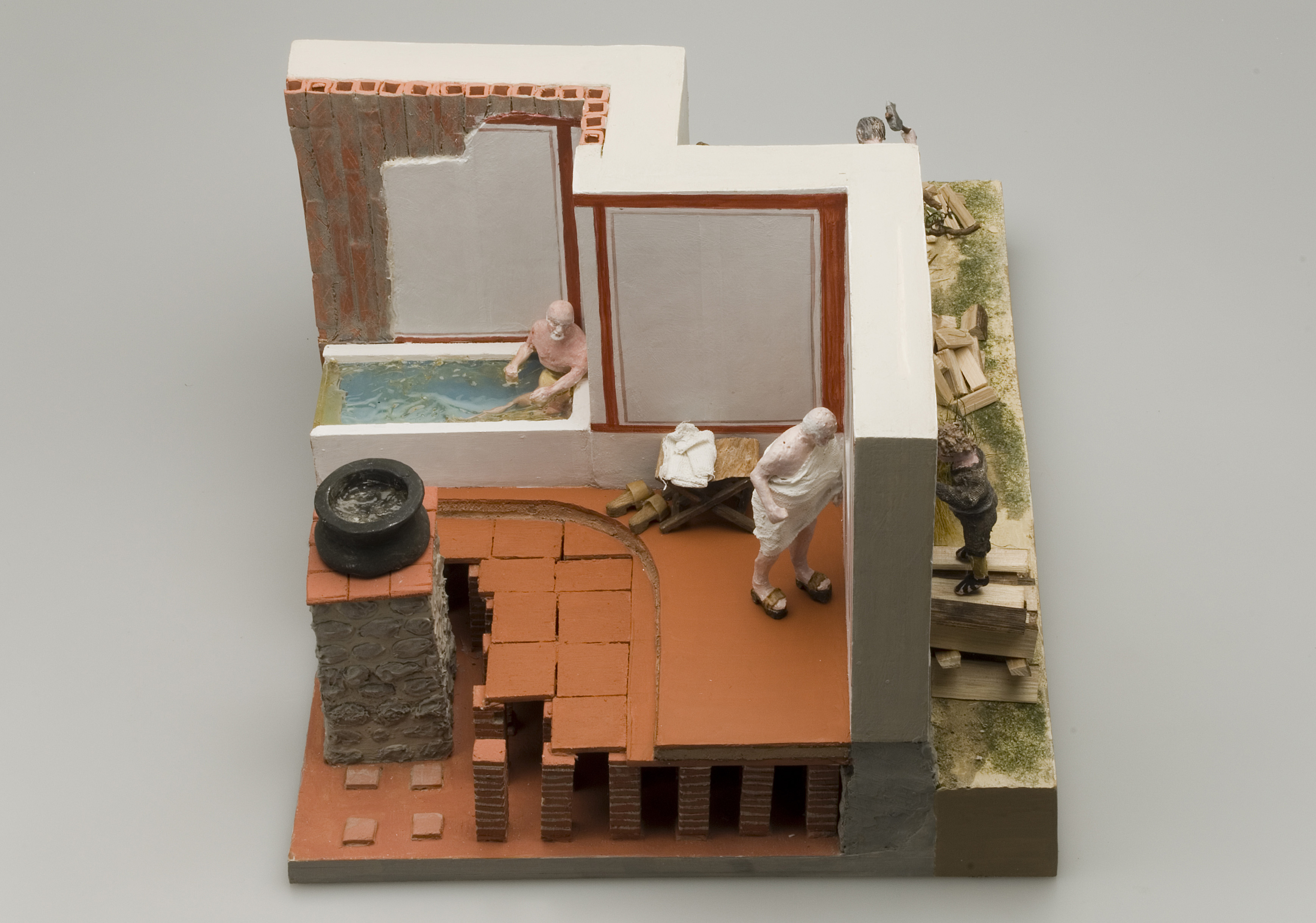 Modell of a roman bath in Museum Arbon Castle (CH).